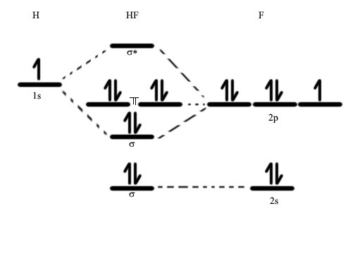 HF MO Diagram